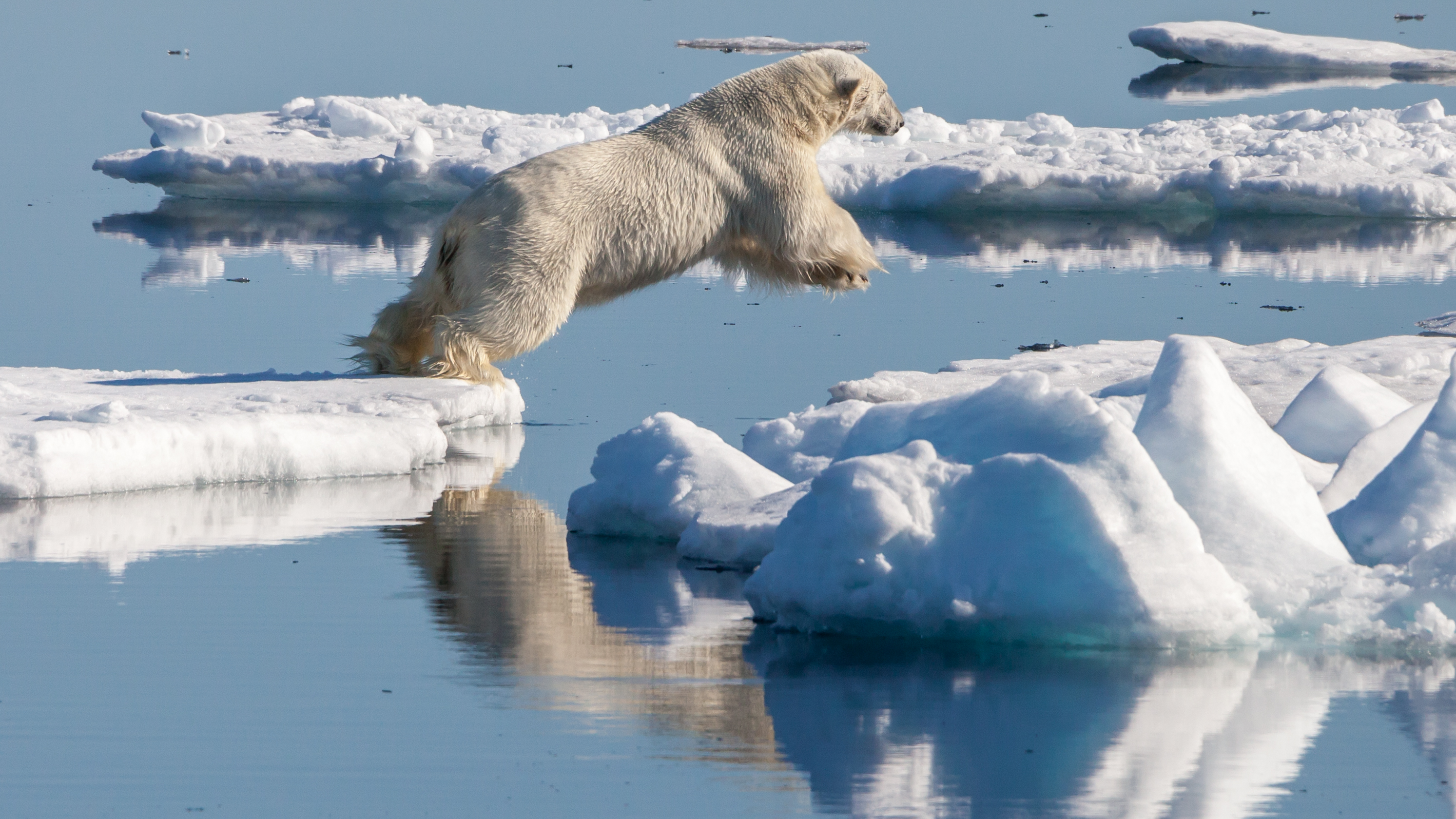 This male Polar bear (Ursus maritimus) just had a fiasco when chasing a bearded seal. Subsequently he was restlessly searching for another prey; jumping from one ice floe to another.